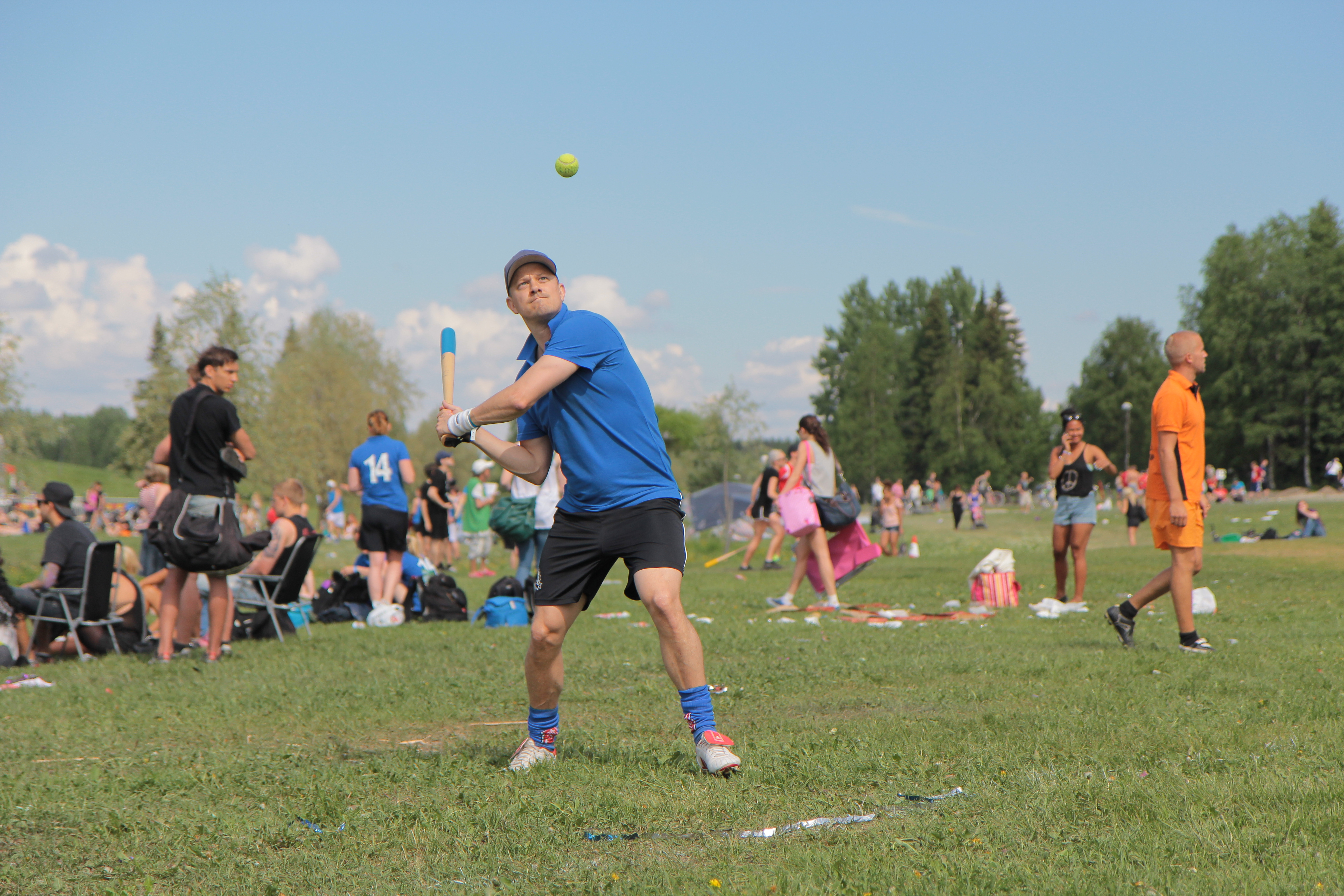 Brännbollsyran på Mariehemsängarna